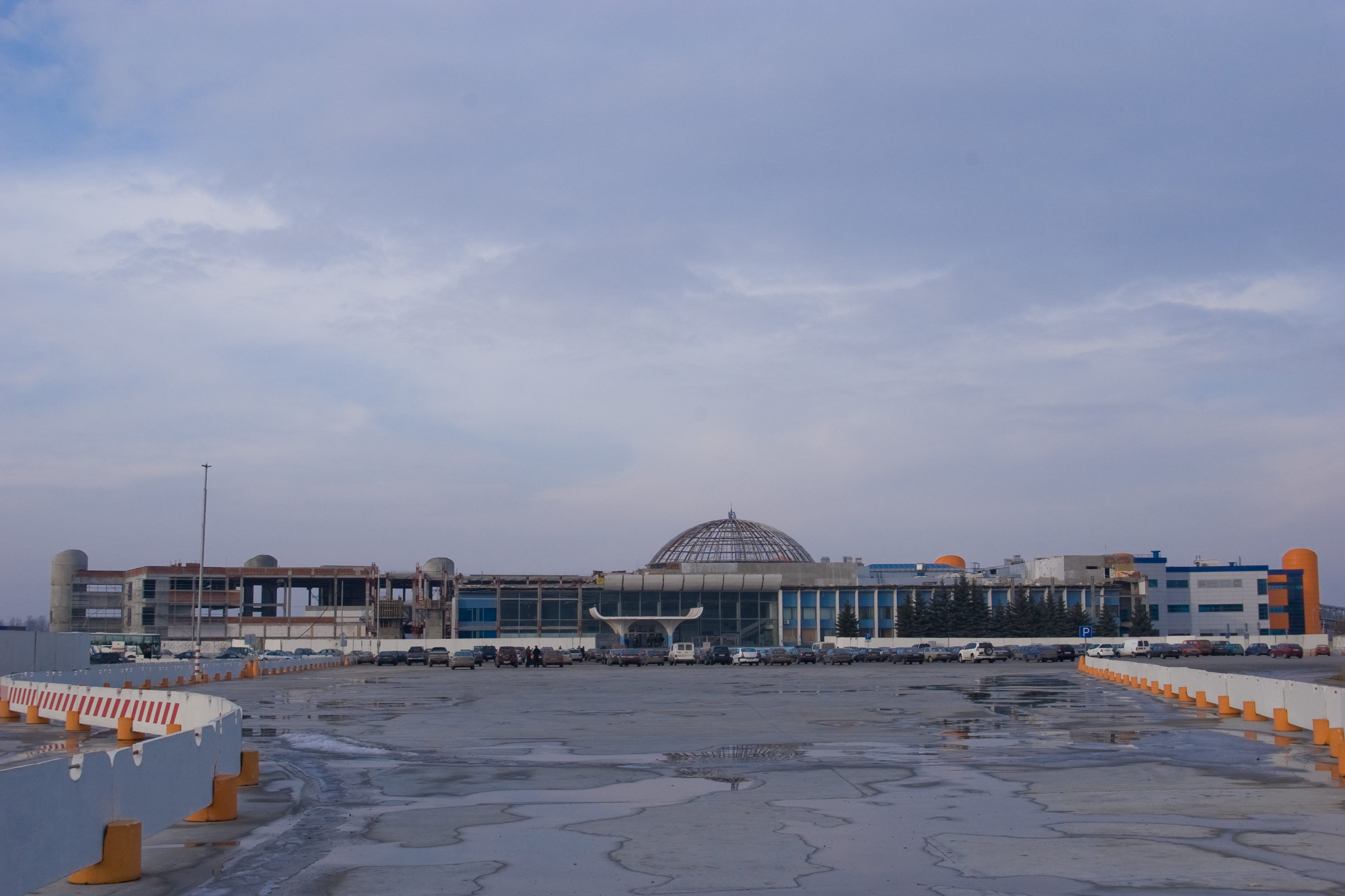 Khrabrovo Airport (UMKK)